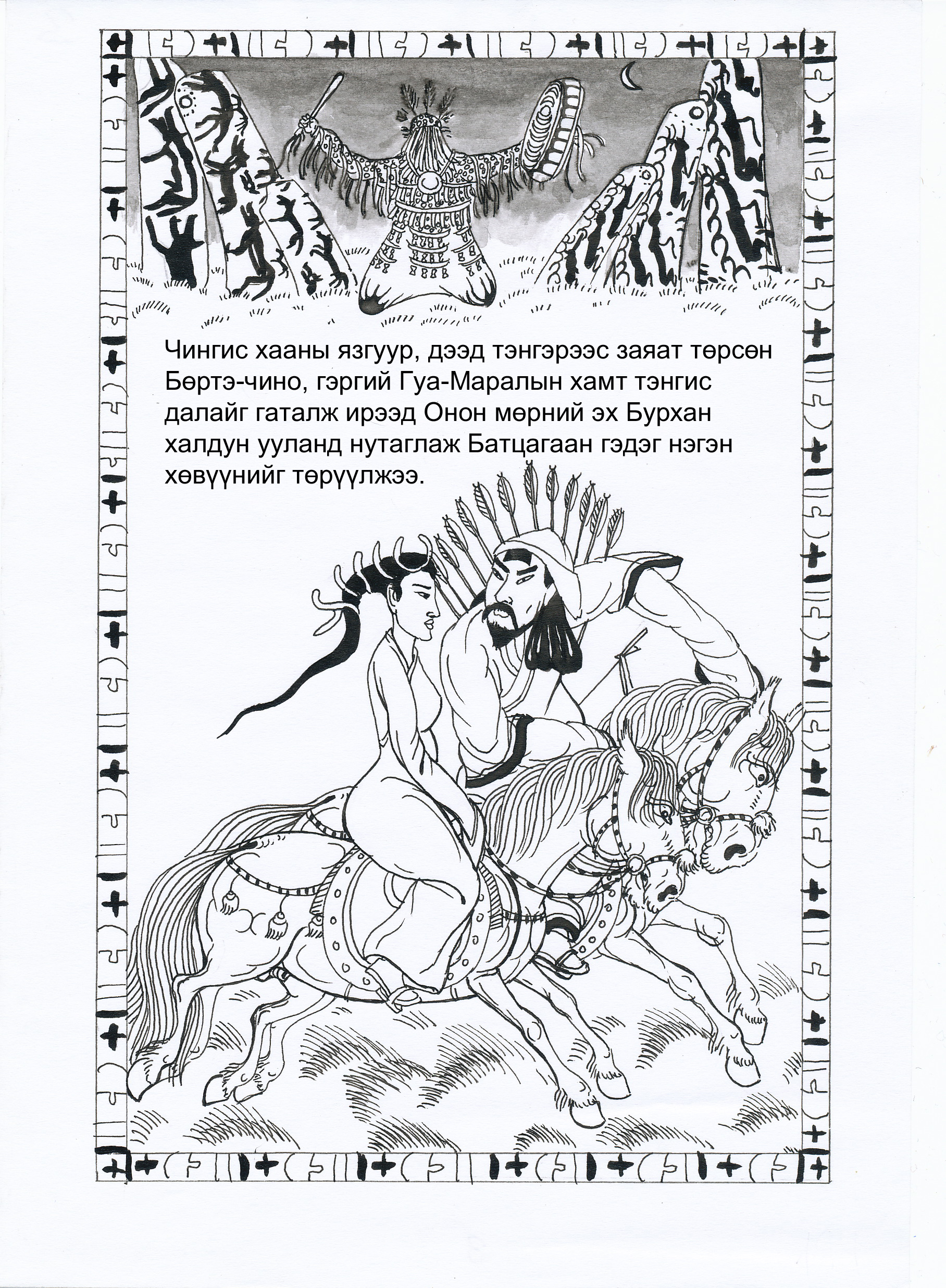 Otgonbayar Ershuu Comic: The Secret History of the Mongols